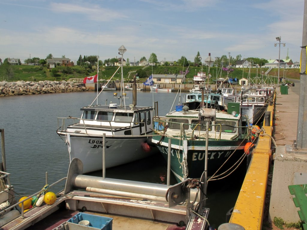 Harbour at Sainte Godefroi, Quebec